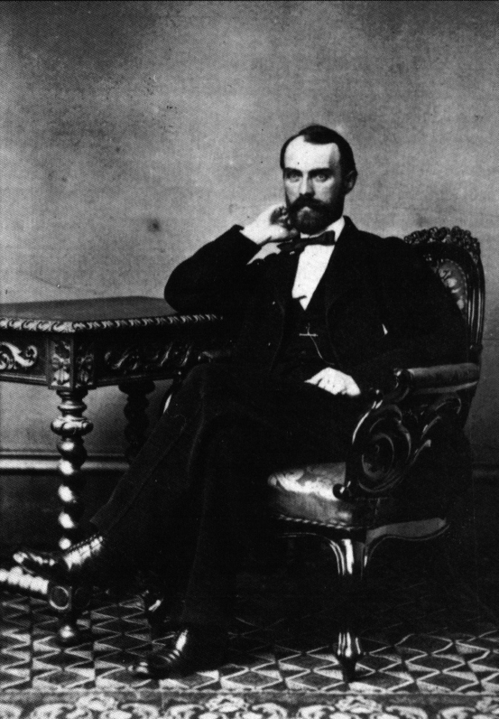 Photograph of the Finnish composer Karl Collan (1828–1871).